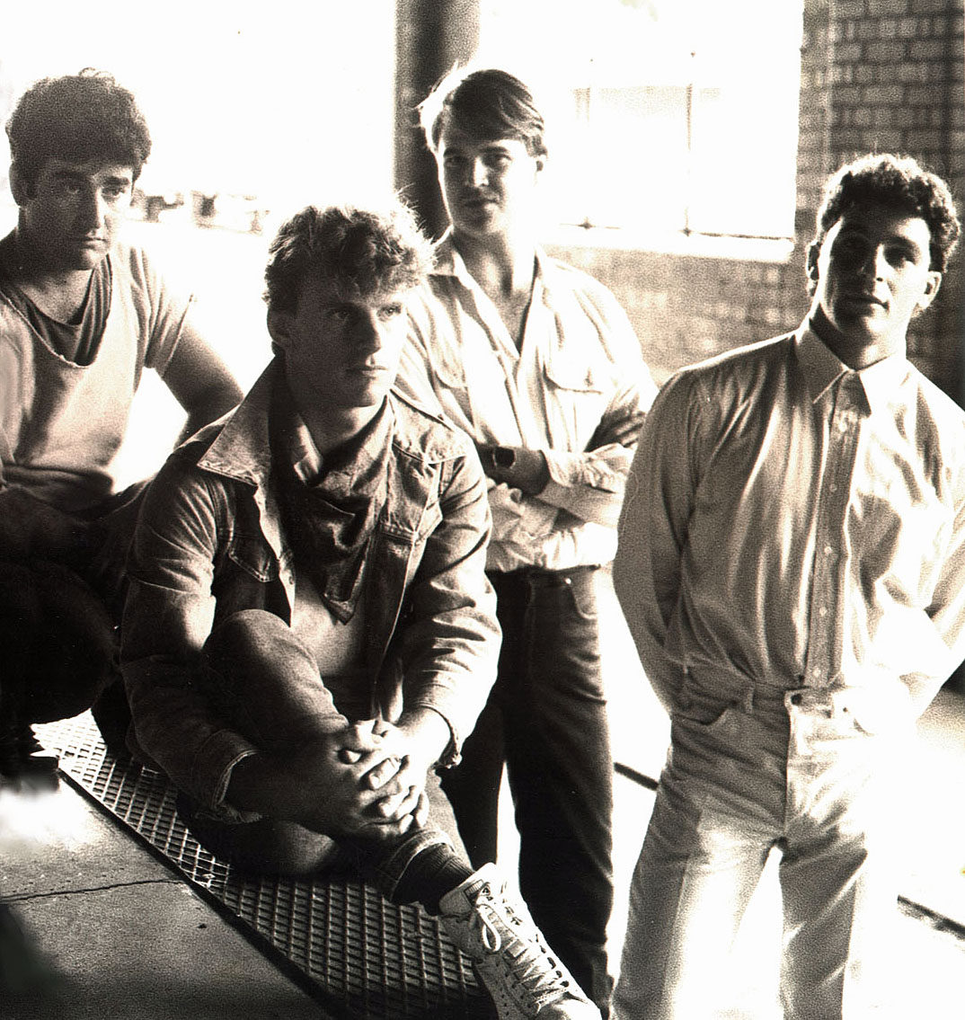 The Seven Ballerinas are an Australian Indie rock band from the Gold Coast, active from 1981 to 1984. Other information This photo has been in the private possession of the owner, Mr Palmer since 1982, and has been provided by him for the express purpose of illustrating the Wikipedia article on the band.